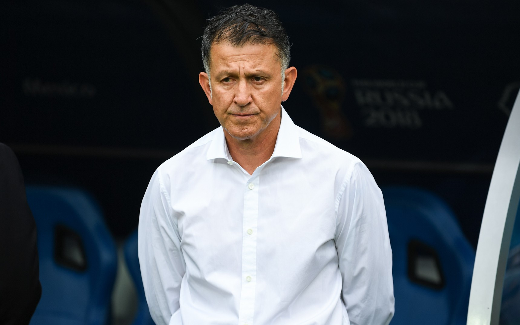 Juan Carlos Osorio